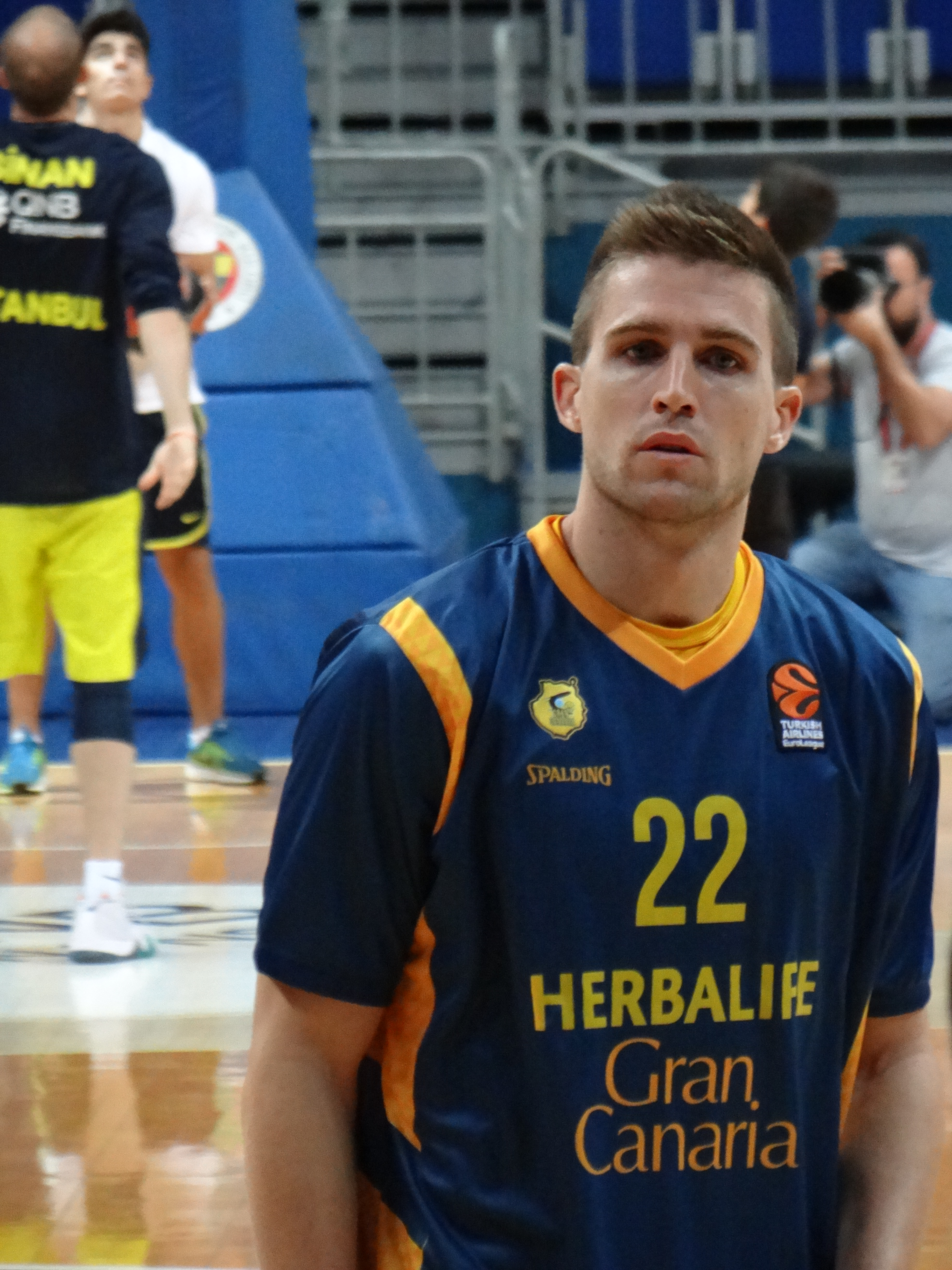 Xavi Rabaseda 22 CB Gran Canaria EuroLeague 20181012